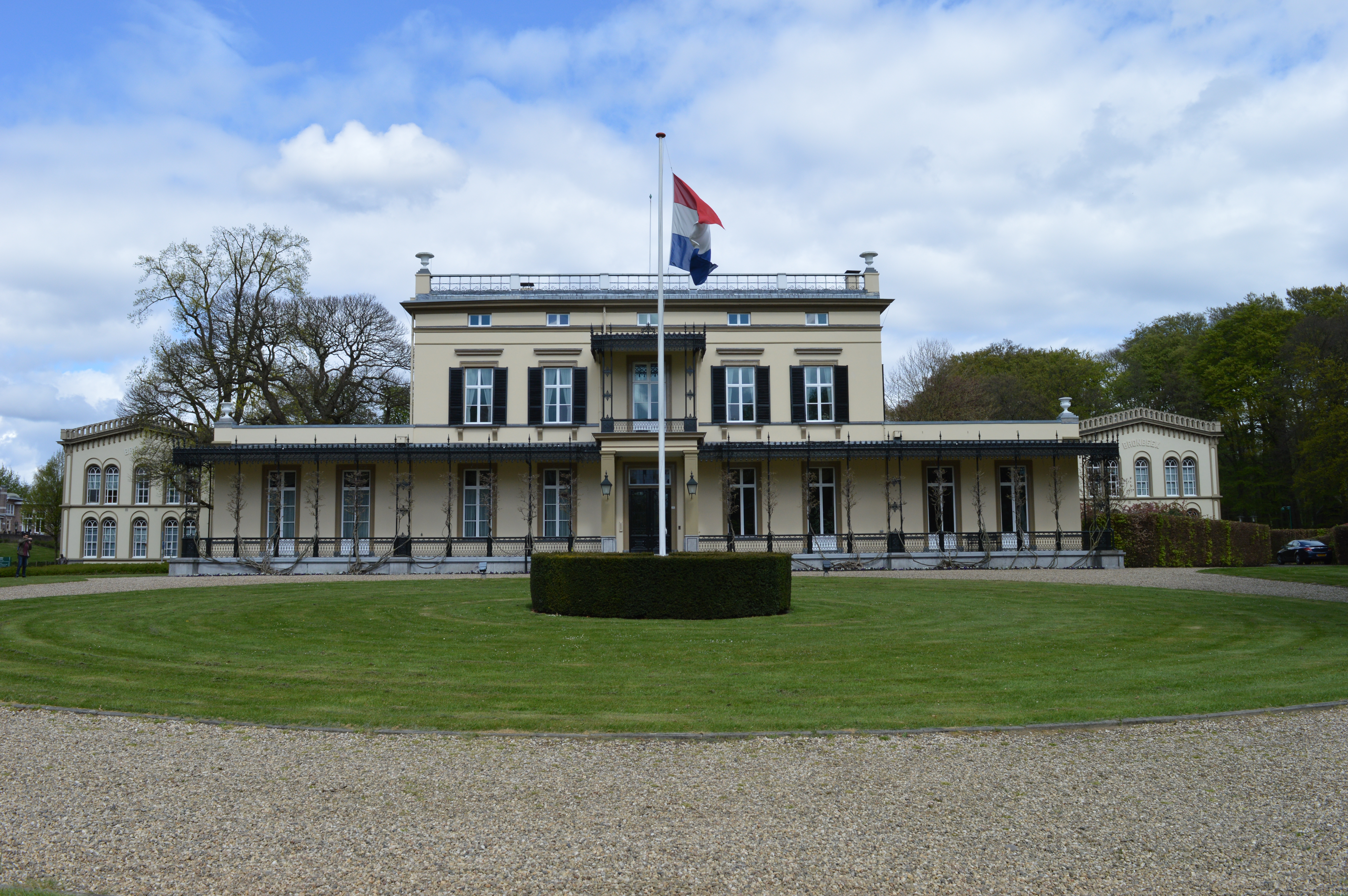 Bronbeek Arnhem, military museum